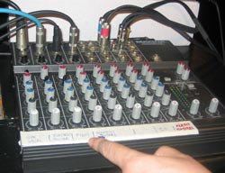 Mackie mixer used at the Gano Sings The Blues Show in NYC circa March 2005